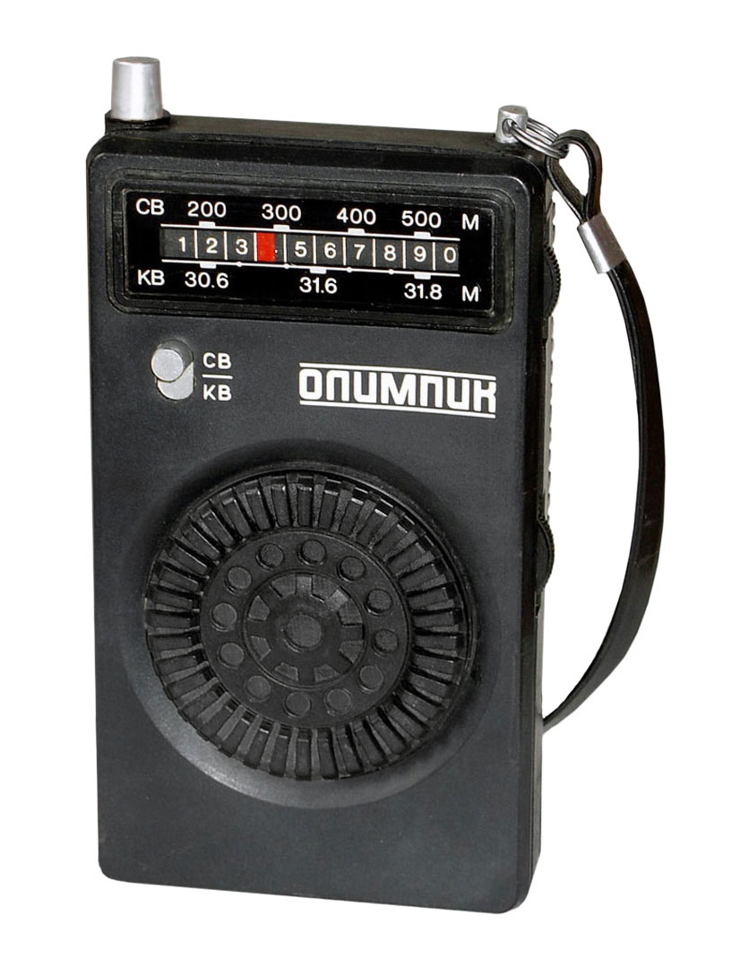 Portable radio Olimpik, black, by artist Mykola Lebid (1977)